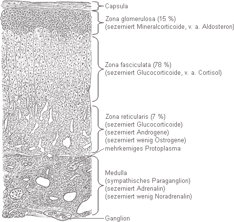 Section of a part of a suprarenal gland (magnified).